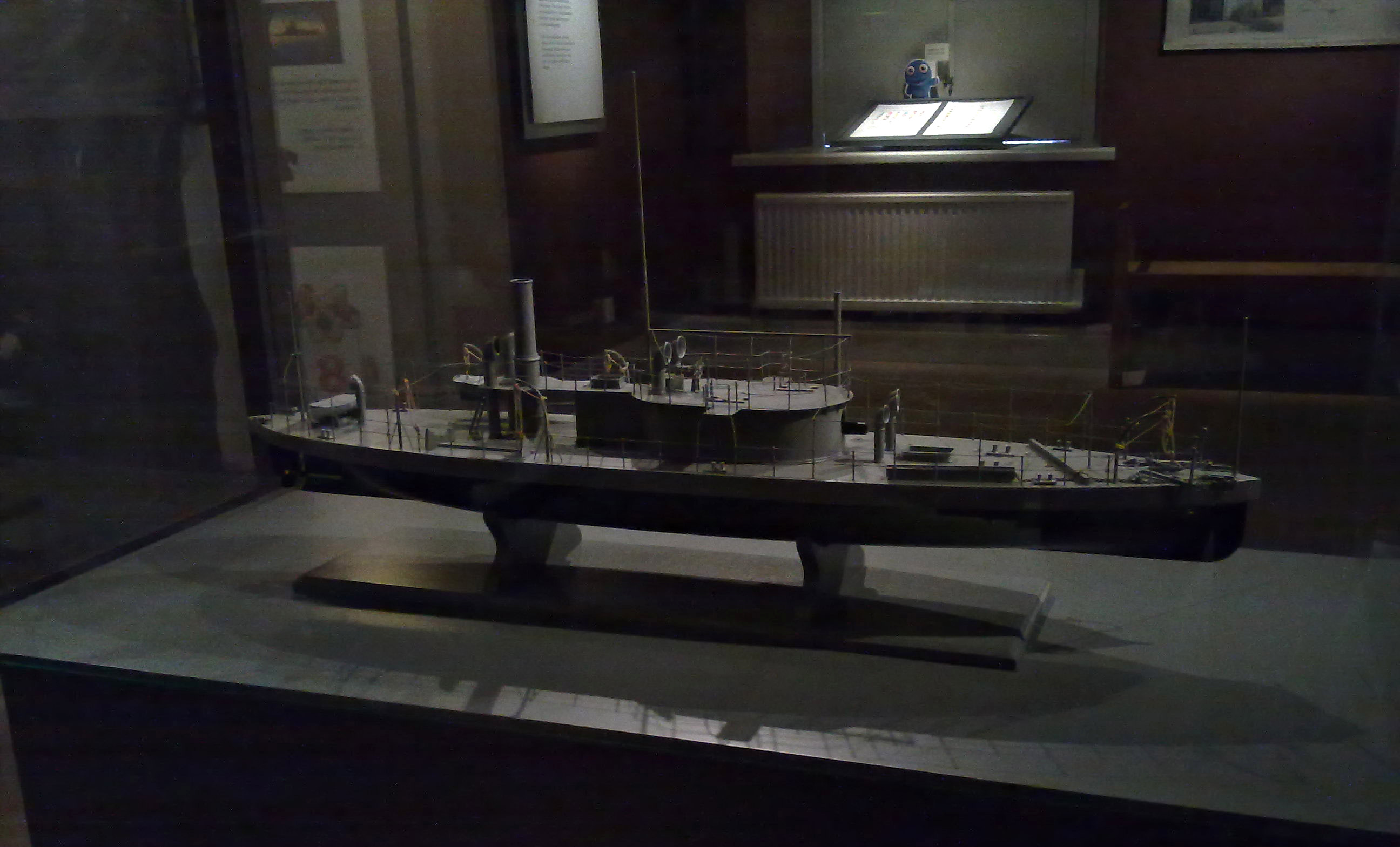 Model 1:50 of HMS Hildur at Vaxholm.